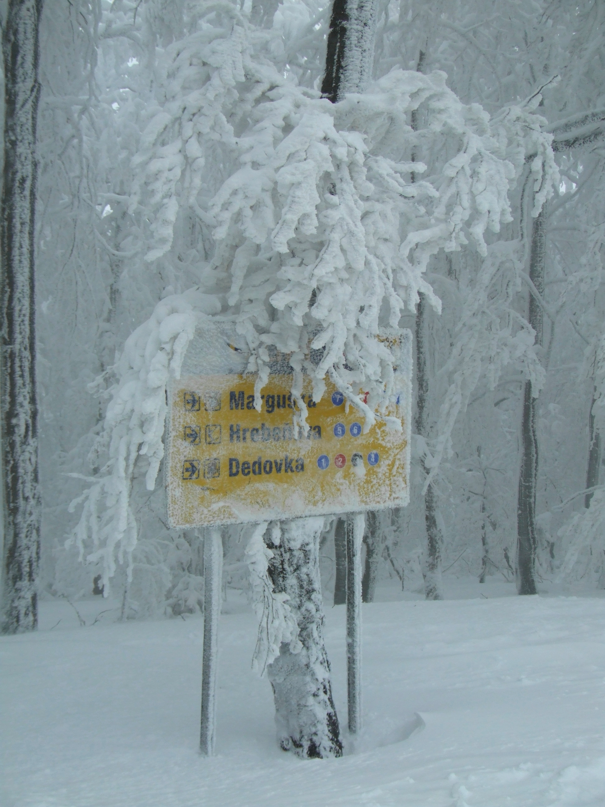 Snow Paradise Veľká Rača Oščadnica, Slovakia